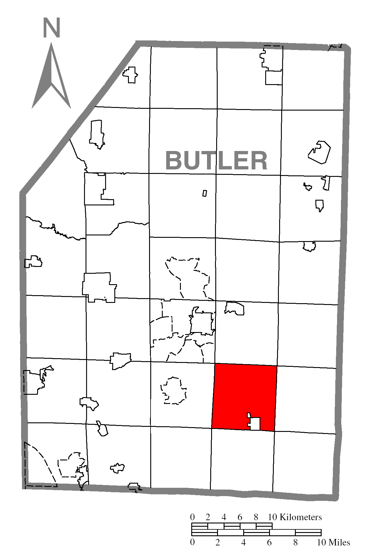 A map of Butler County showing Jefferson Township, Pennsylvania (alternate) highlighted on the map.